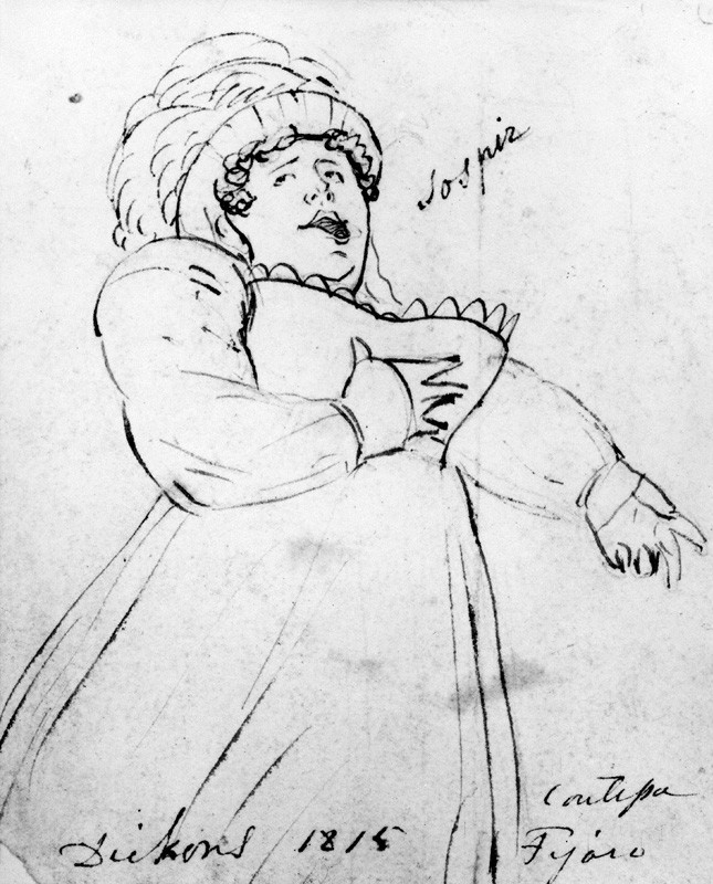 Maria Dickons born Poole, opera singer, by Alfred Edward Chalon, ink, 1815 from the NPG in London